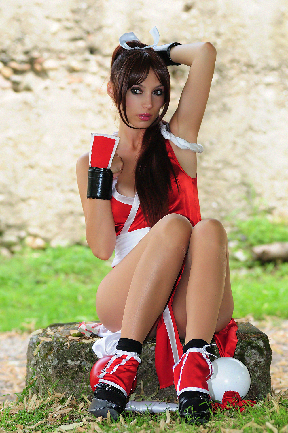 Giorgia cosplay as Mai Shiranui from the video game Fatal Fury Special